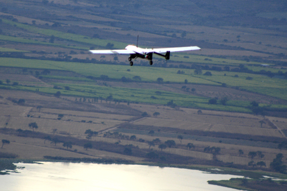 S4 Ehecatl landing